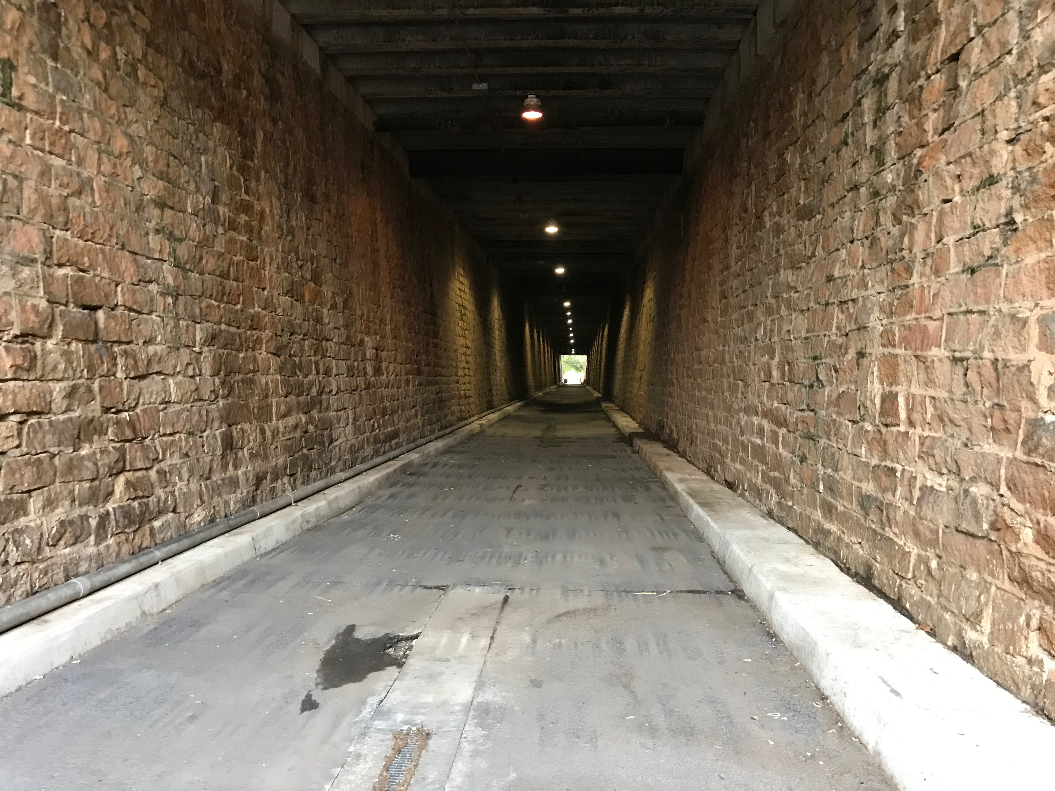 The Lincoln Street Tunnel in Columbia, SC: A pedestrian and bicycle-only tunnel converted from a former railroad tunnel. The tunnel crosses under Lincoln Street, Washington Street, and Hampton Street.